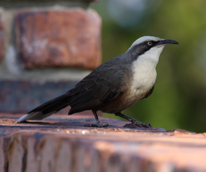 Grey-crowned Babbler (Pomatostomus temporalis) Samford, SE Queensland, Australia.